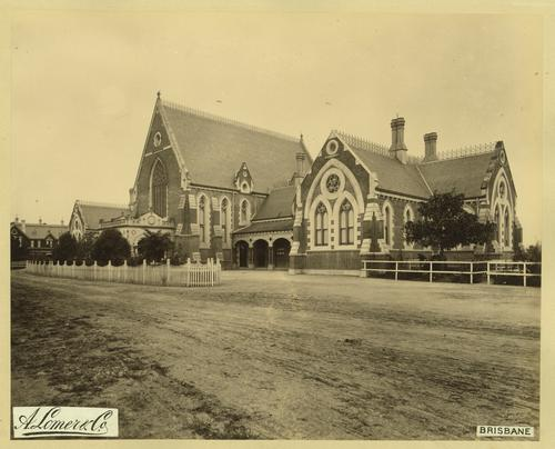 Brisbane Grammar School - The new school on Gregory Terrace, 1889 Image title:Boys' Grammar School, 1889 Description:"Public fundraising enabled the establishment of Brisbane Grammar School in 1868. It was Brisbane's first Grammar School. In 1868 Prince Alfred, laid the foundation stone at the School's original site in Roma Street. The school opened in February 1869 with ninety-four students and four masters under the leadership of Headmaster, Thomas Harlin. In 1881, the school was moved to its present site at Gregory Terrace and the magnificent Neo-Gothic style Great Hall and classrooms were opened that year. The building was designed by architect James Cowlishaw. With the opening of the Boarding House in 1886, the school became one of the first to provide unified boarding facilities on site".